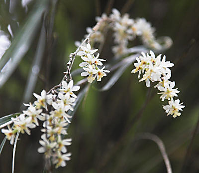 Earina mucronata flowers, Auckland City Walk